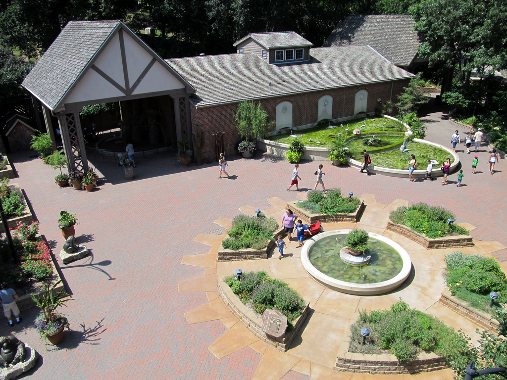 Garden of the Senses at Henry Doorly Zoo, Omaha, Nebraska, USA.